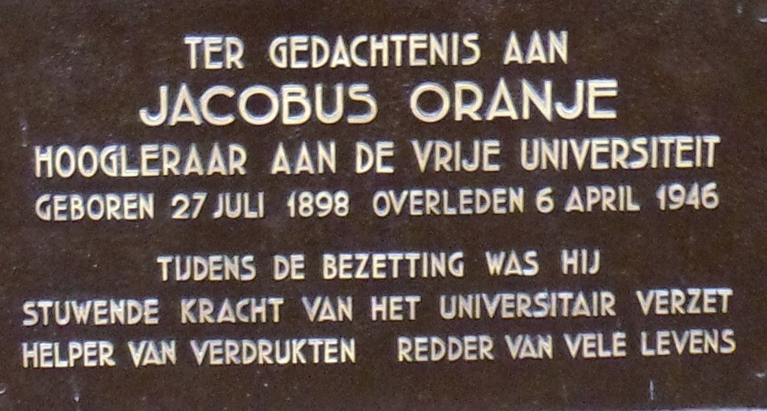 War monument dedicated to Jacobus Oranje. Place: main building of Vrije Universiteit Amsterdam, Boelelaan, Amsterdam (the Netherlands)